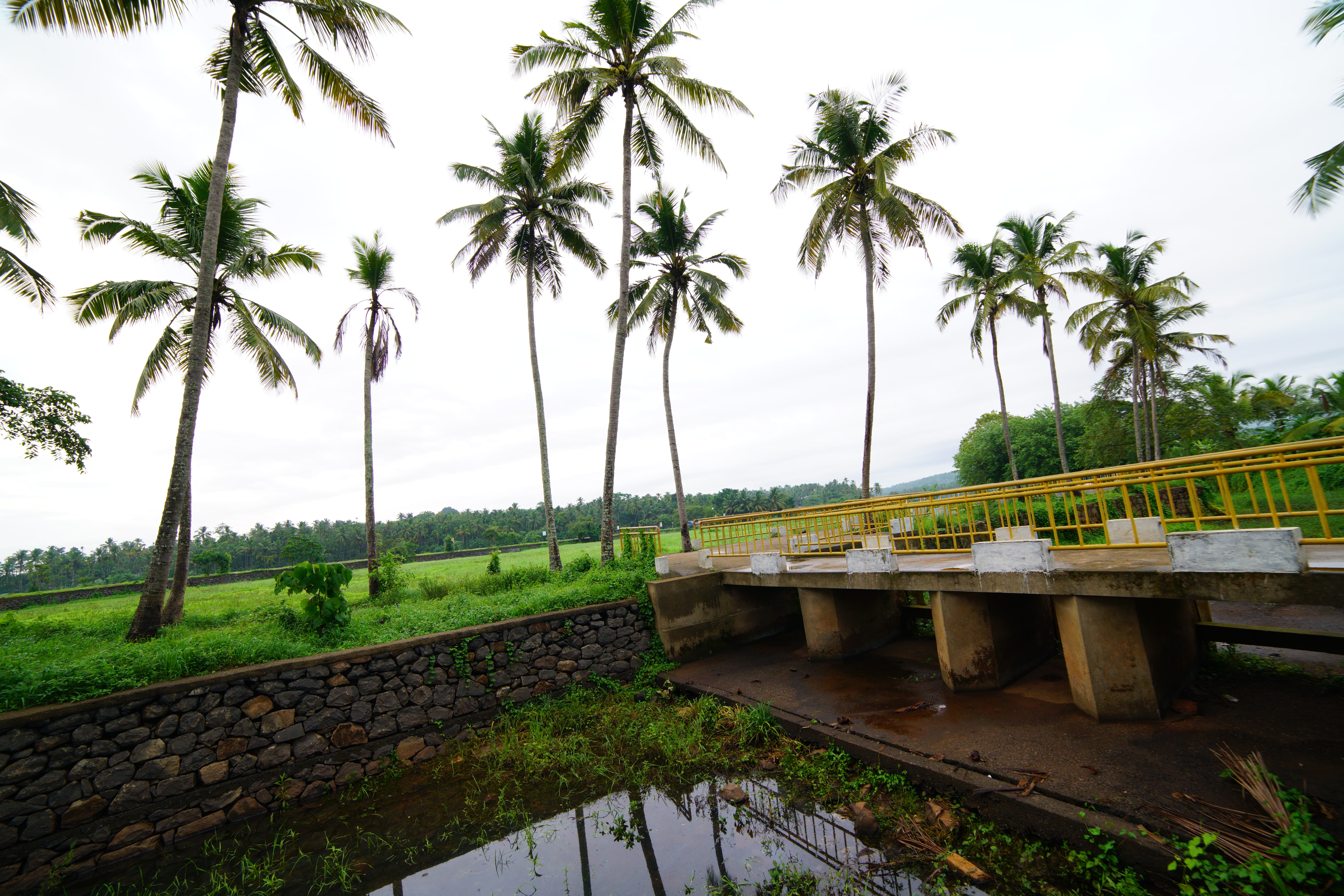 Taken by JAFAR IBRAHIM